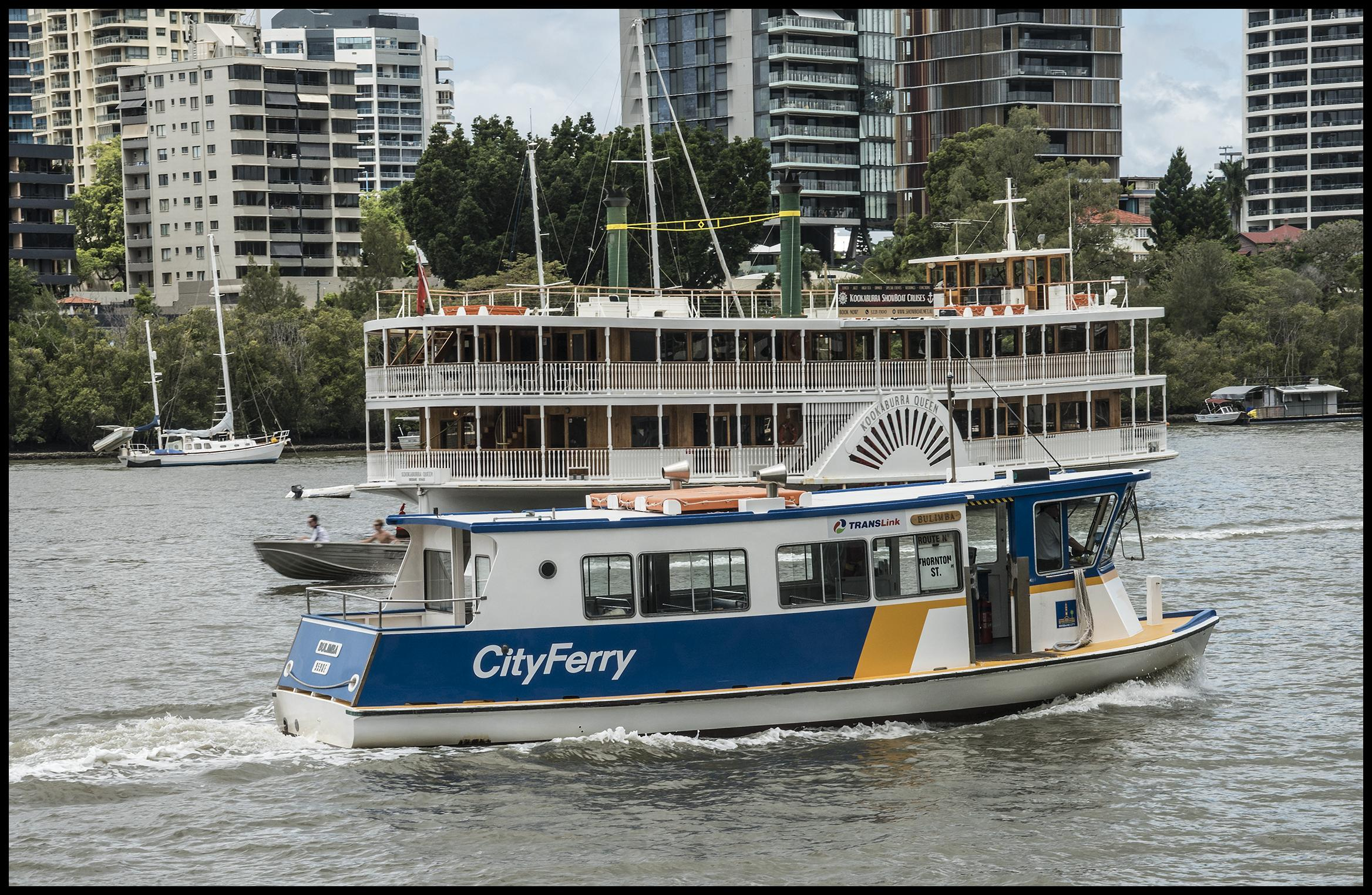 The paddle steamer Kookaburra Queen appears to race with a modern CityFerry on the Brisbane River, 2019